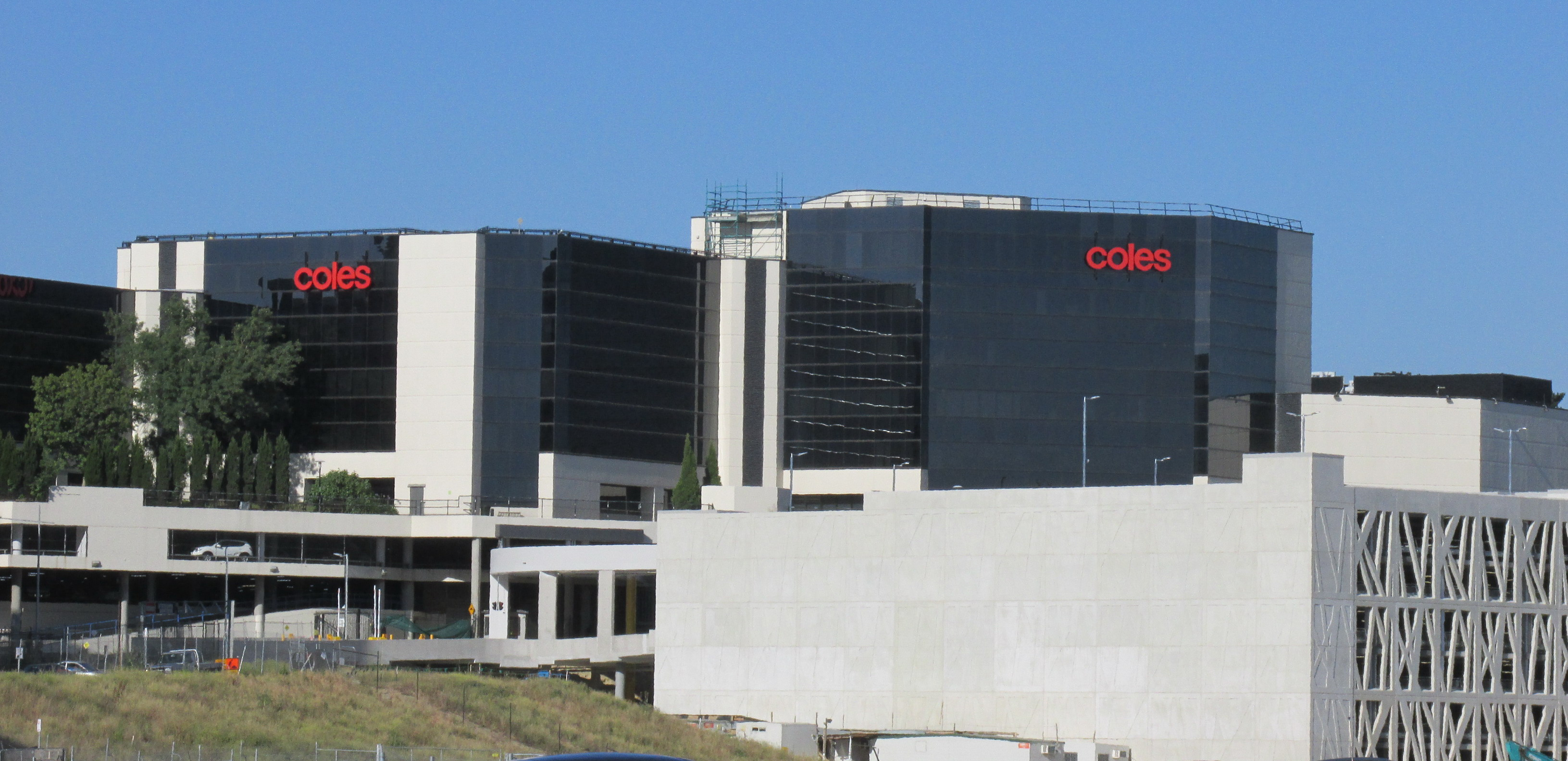 Coles Supermarkets headquarters in Hawthorn East, Victoria, viewed from Tooronga Road bridge.